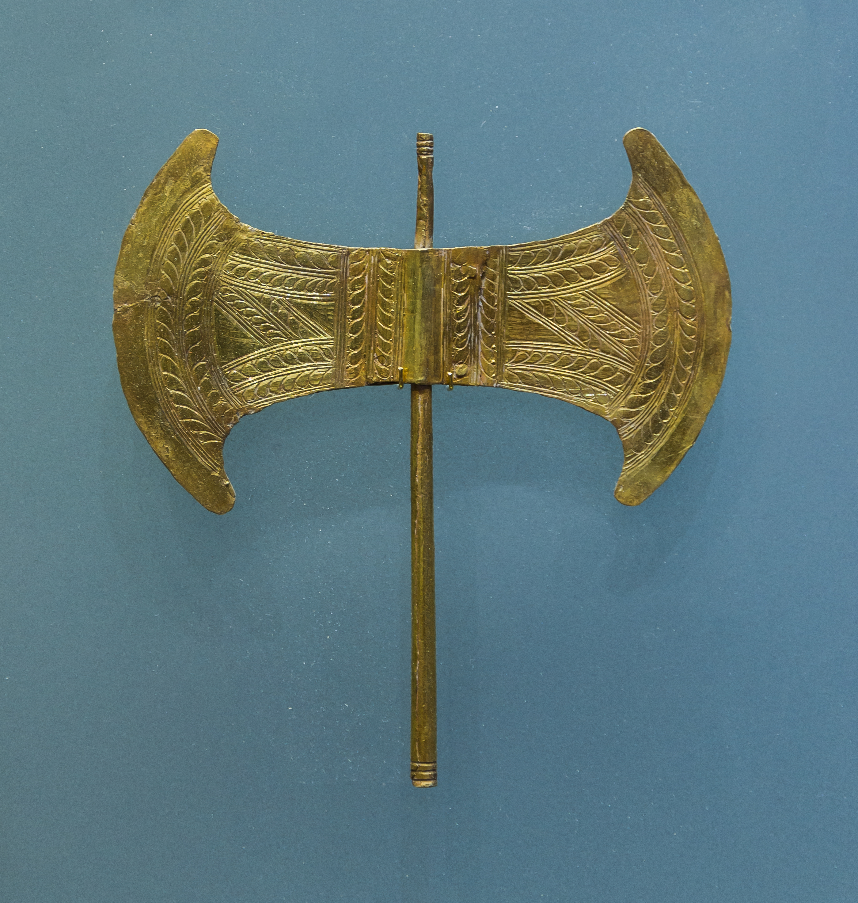 A small golden double head minoan axe. Votive jewel. Found in Archalokori cave, 1700 - 1450 BCE.